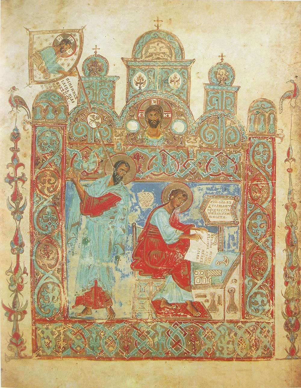 Evangelist John calls Prochorus